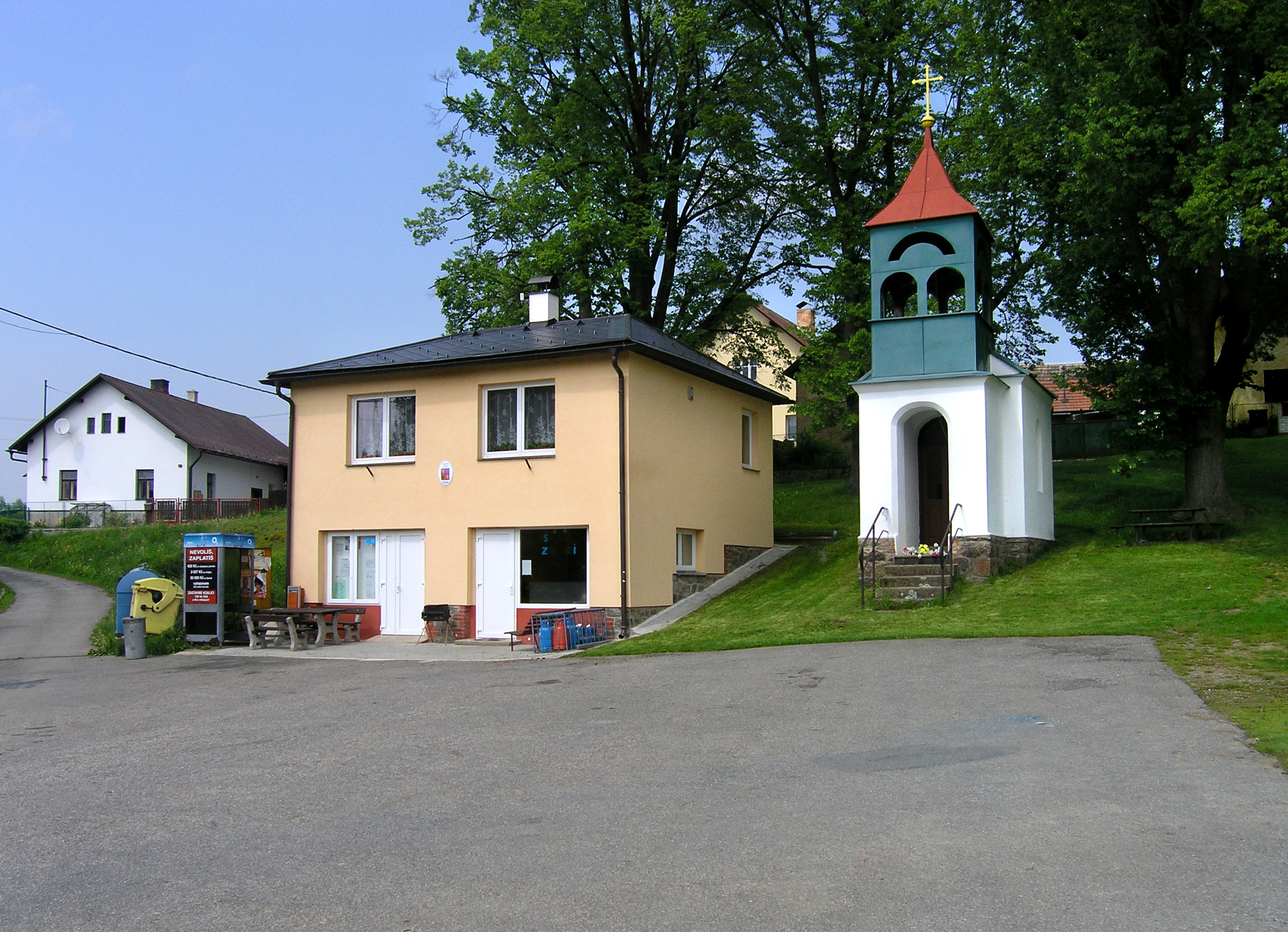 Old house in Kyjov village, Czech Republic